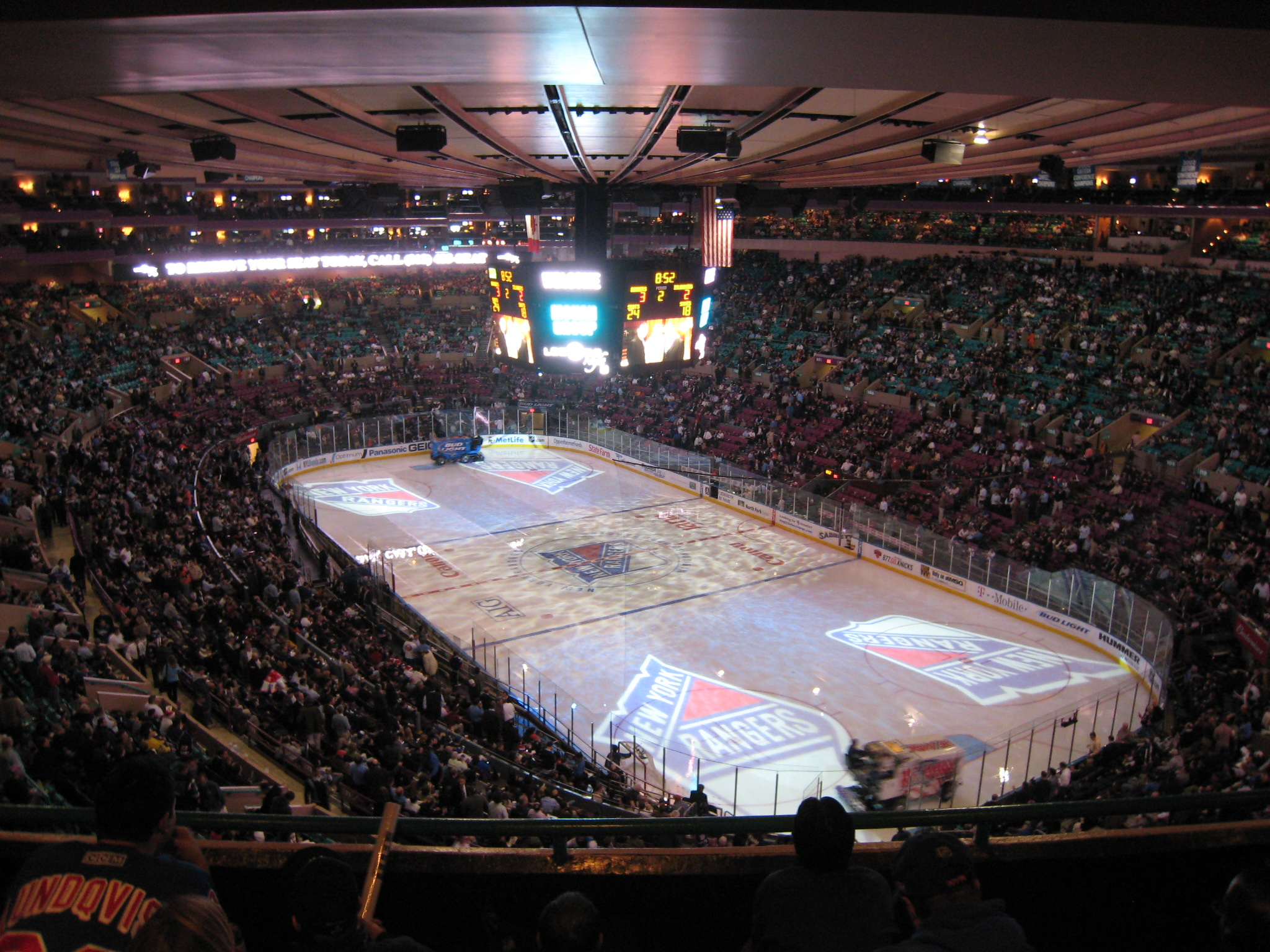 2nd break at New York Rangers vs. New York Islanders in Madison Square Garden.